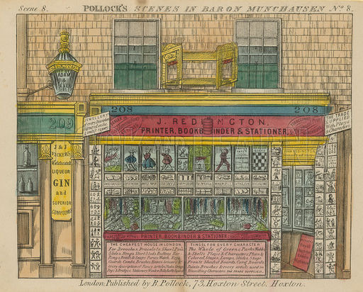 Exterior of John Redington's Stationer and Bookbinder on Hoxton Street in Hoxton as depicted on a "twopence coloured".